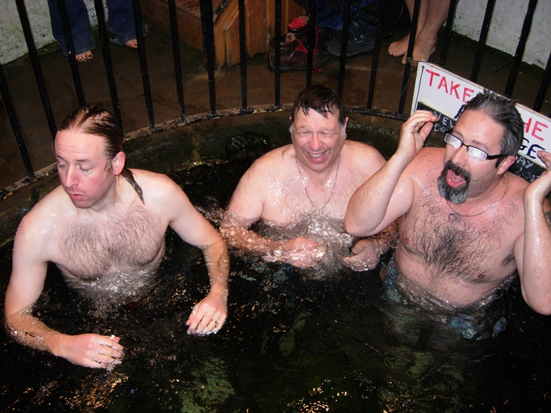 People taking part in the New Year's Day tradition of plunging in the spa pool at White Wells, Ilkley Moor.